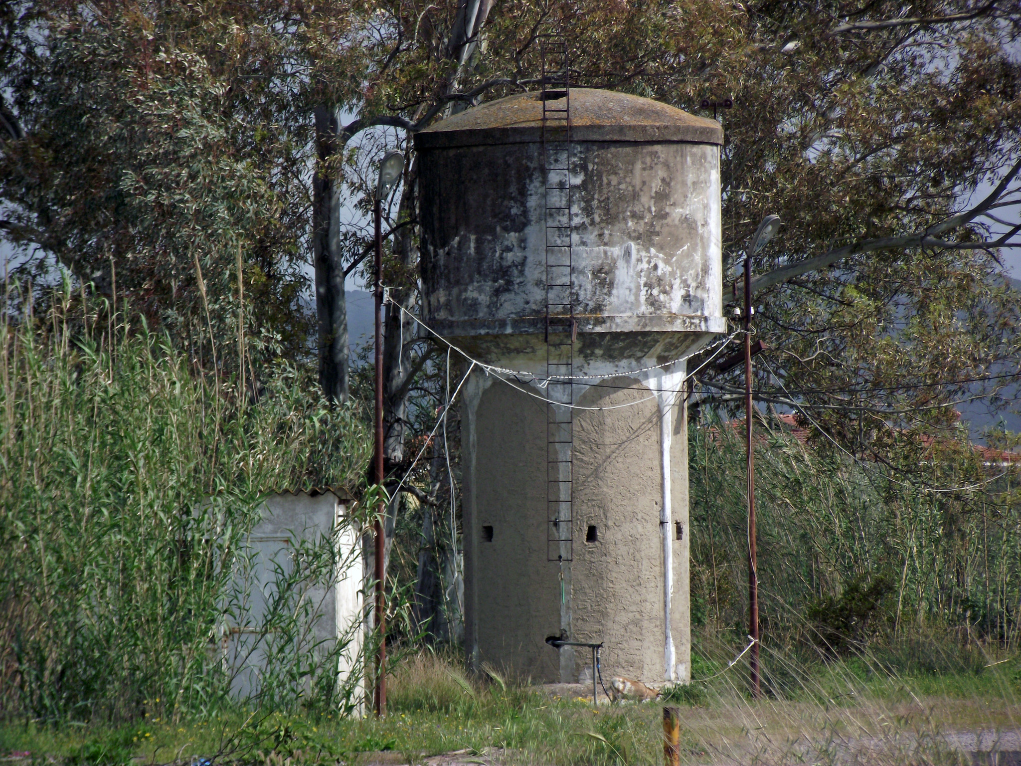 The water tank of the former Santadi railway station, Sardinia, Italy